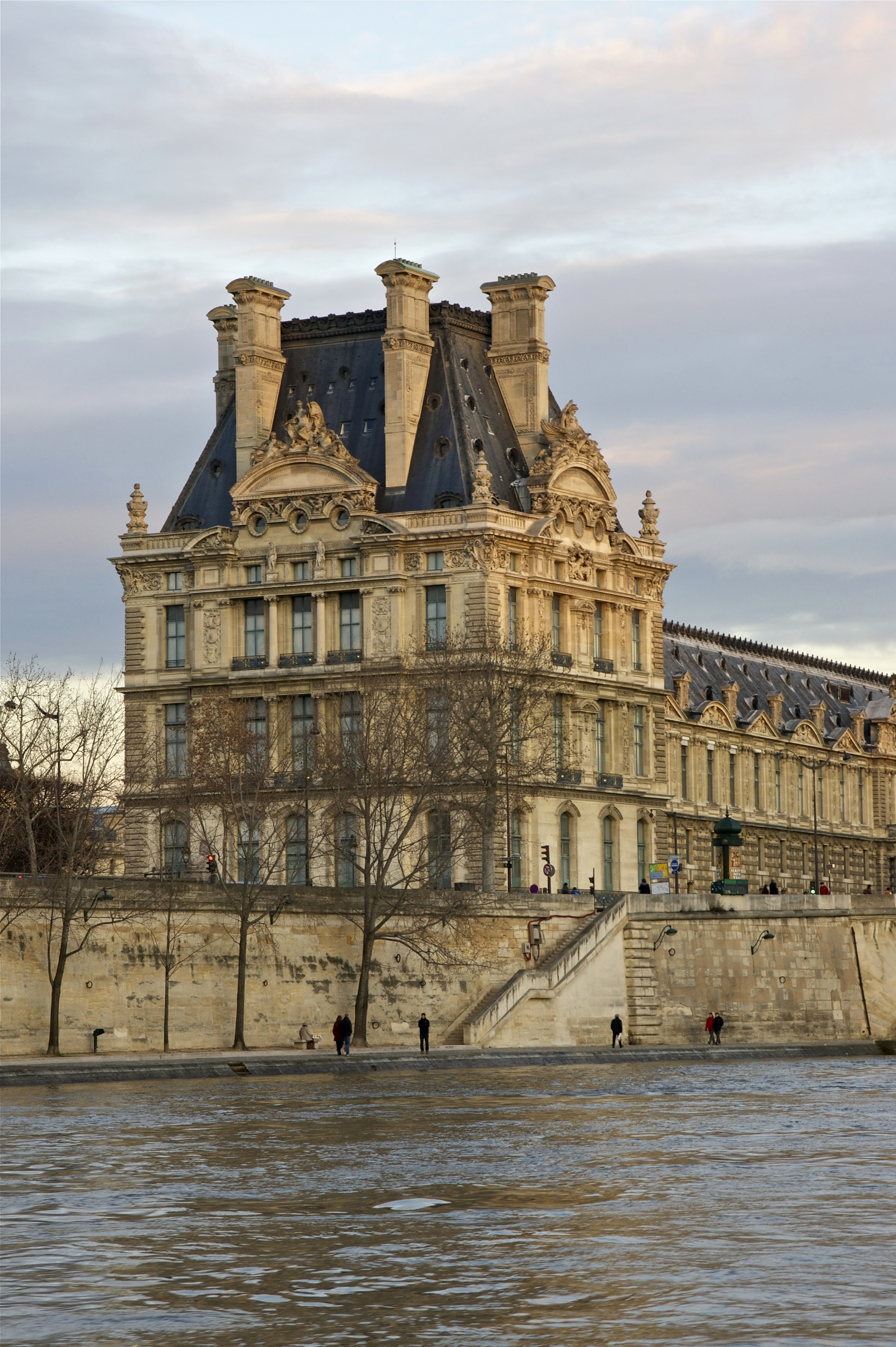 The "Pavillon de Flore" of the Tuileries, south wing of the Louvre palace.